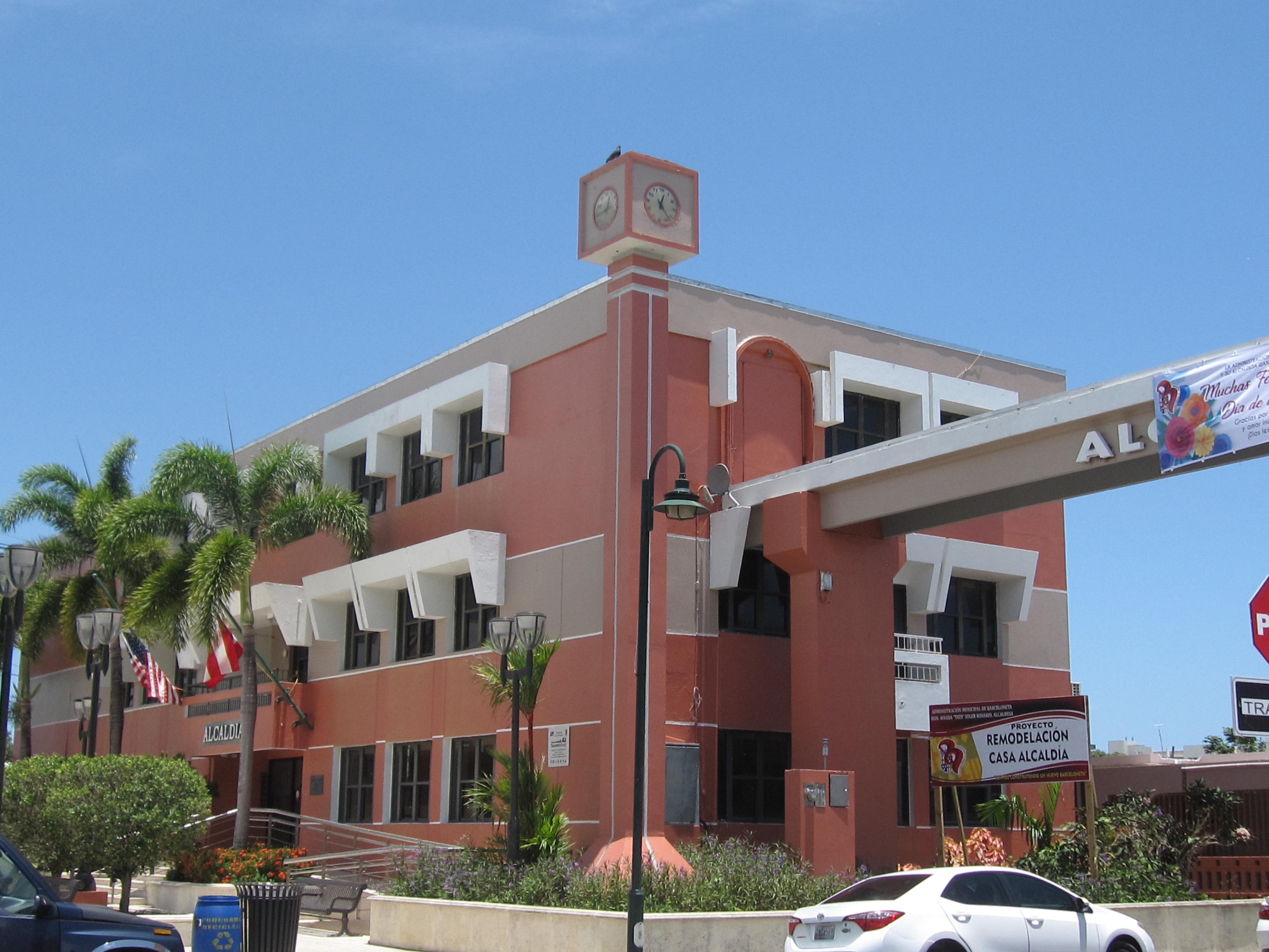 City Hall in Barceloneta barrio-pueblo, Puerto Rico